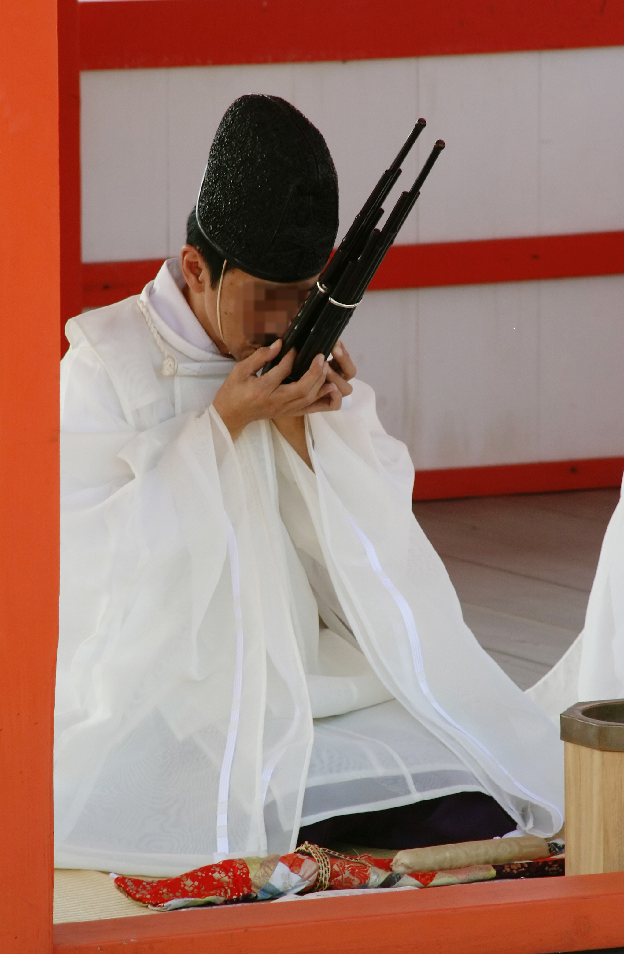 Shō-player at Itsukushima Shrine, Miyajima, Hiroshima Prefecture, Japan.